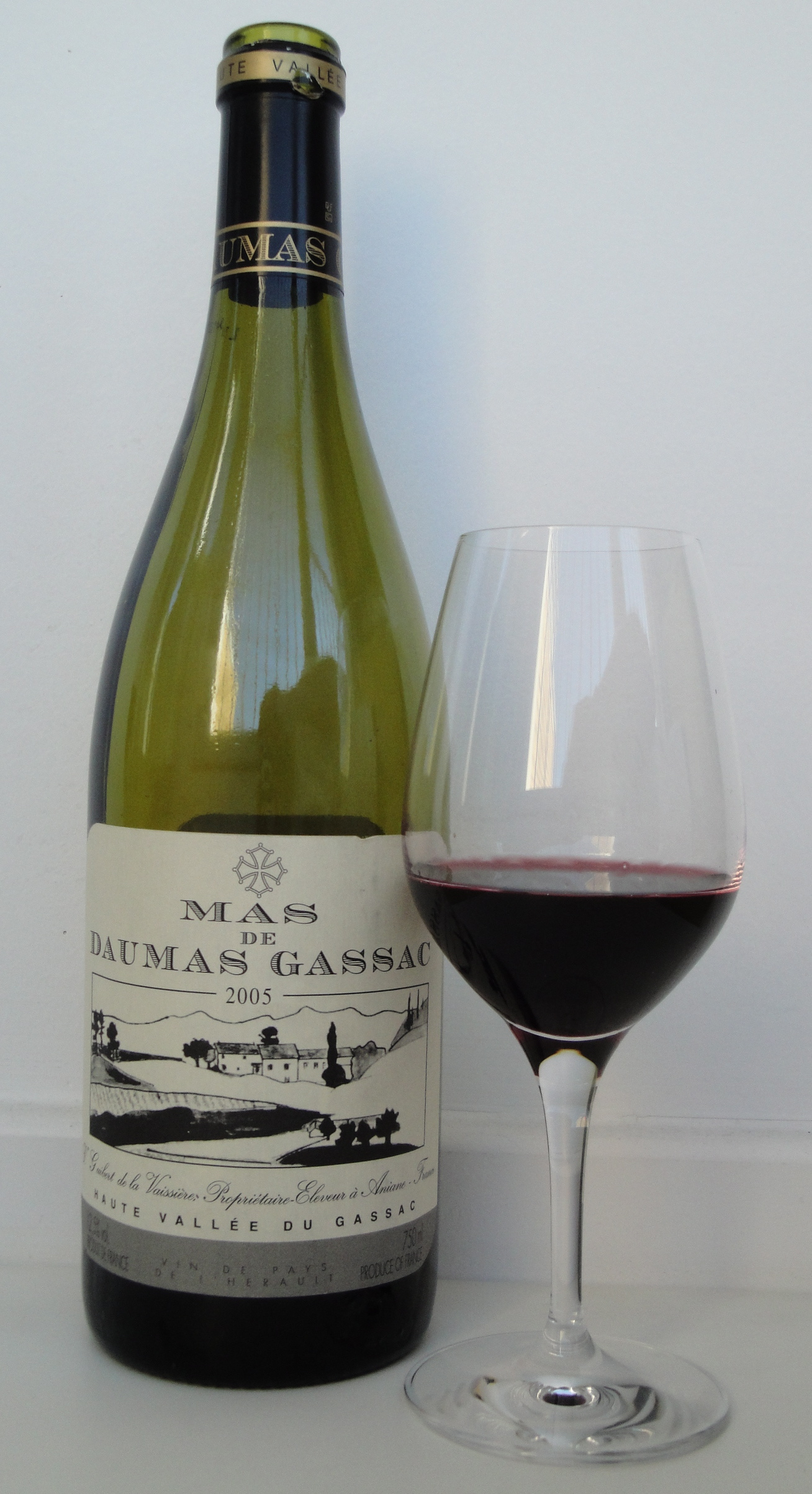 Mas de Daumas Gassac rouge 2005, a wine from Languedoc in southern France classified as Vin de Pays de l'Herault